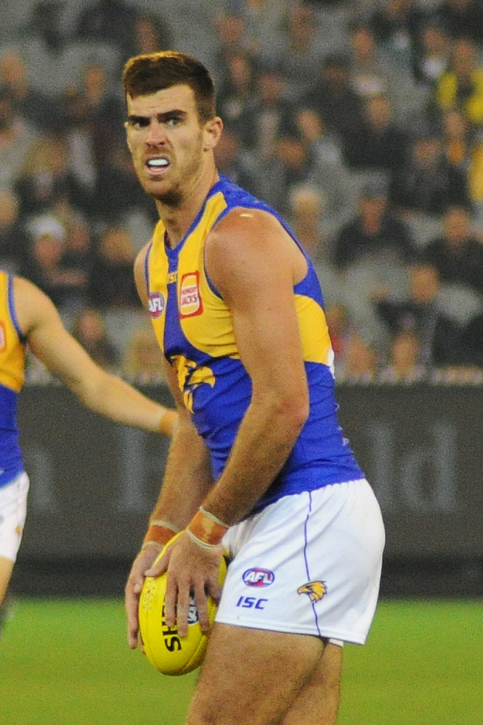 Scott Lycett during the AFL round five match between Carlton and West Coast on 21 April 2018 at the Melbourne Cricket Ground in Melbourne, Victoria.